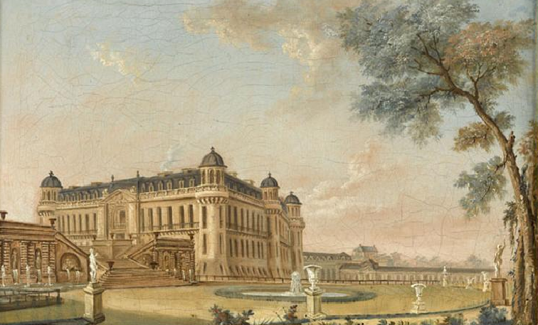 Anonymous view of Chantilly in circa 1775